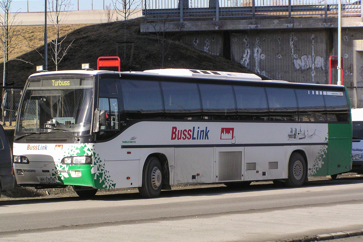 Norgesbuss BussLink coach.